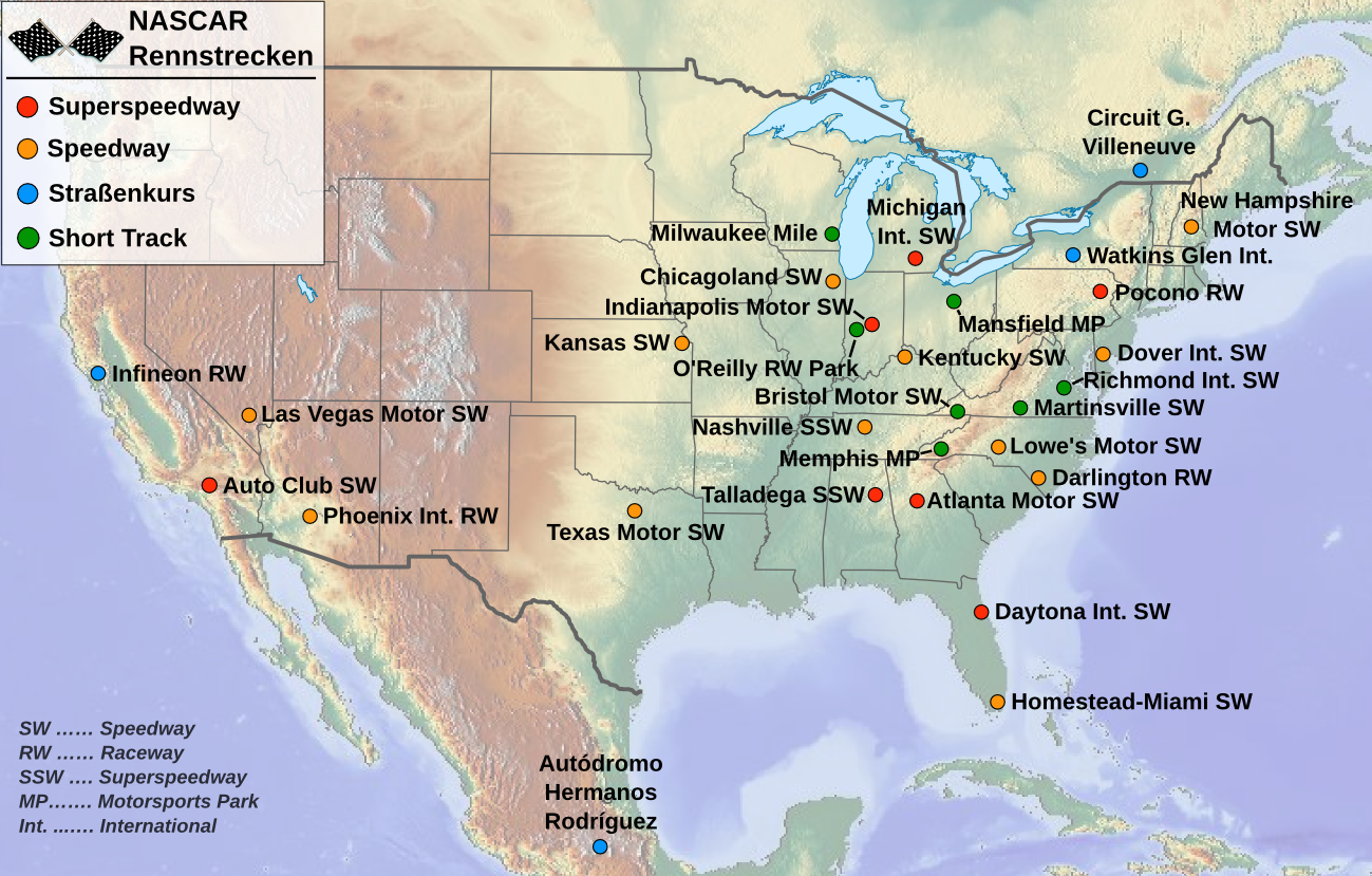 List of NASCAR race tracks in German